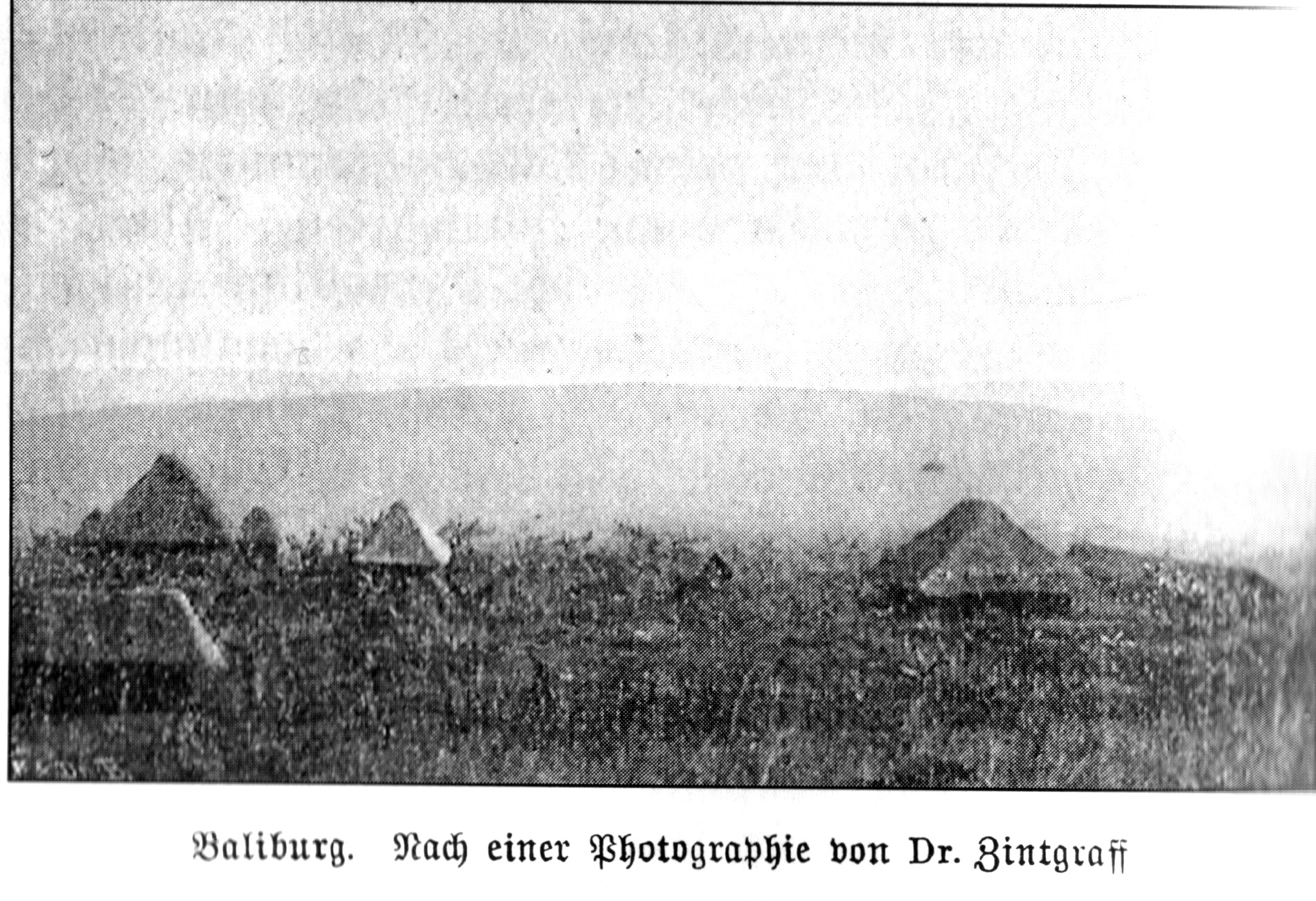 Baliburg (Cameroon) in the 1890s